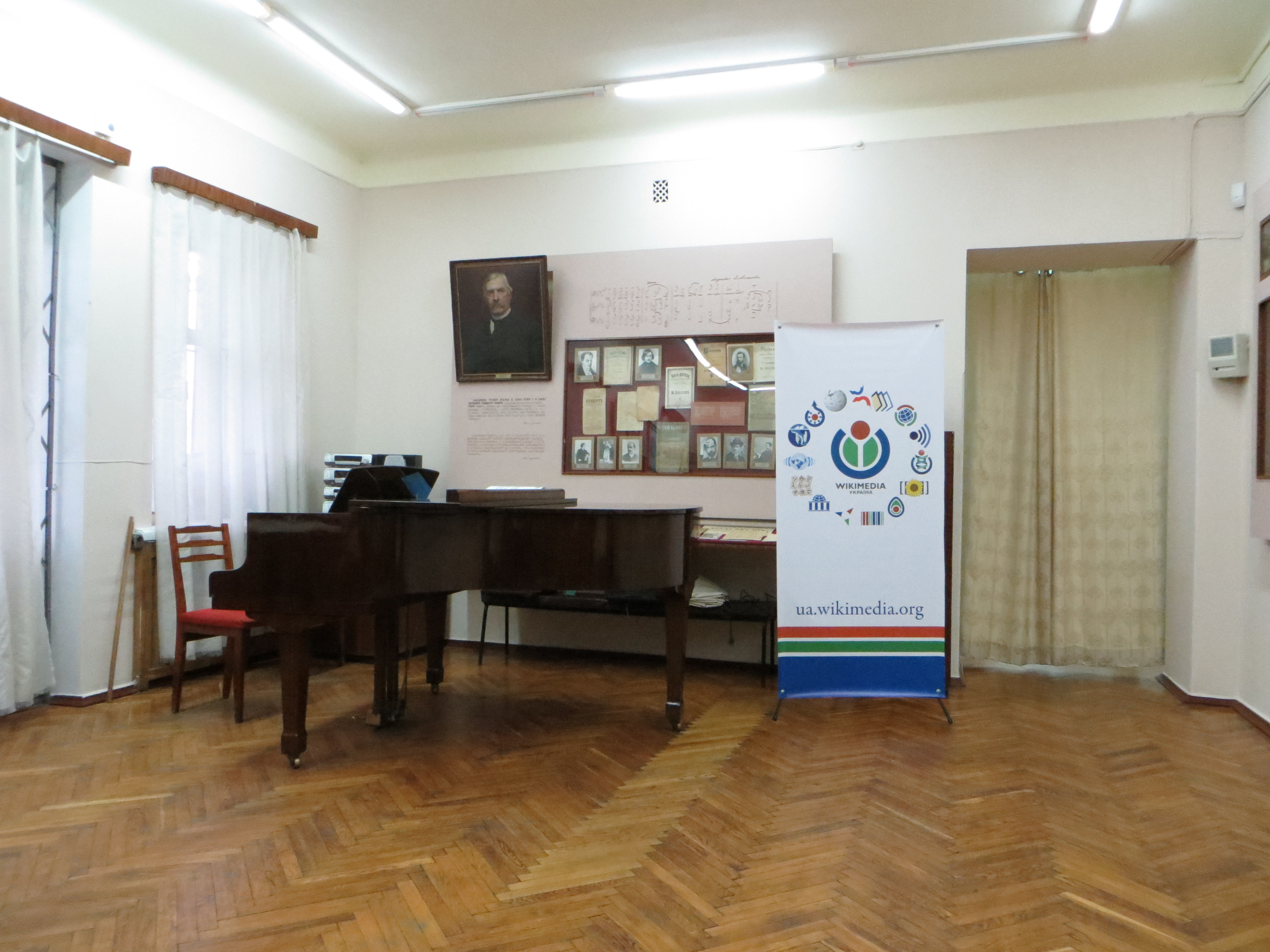 Photo from the Mykola Lysenko and his contemporaries concert